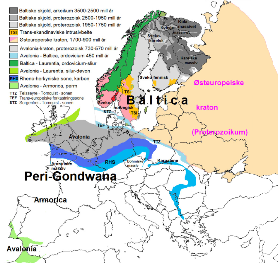 Geological map of tectonic processes involving Avalonia, Baltica and Laurentia, with emphasis on the eon Cambrian to Permian (Phanerozoic). Norwegian language.